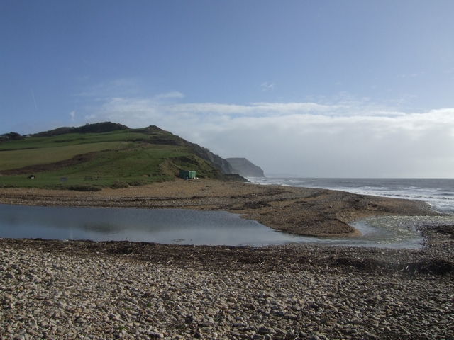 River Char at Charmouth The river flows out across the shingle beach. The highest point on the south coast, Golden Cap, can be seen in the distance. This is the first point the Monarch's Way reaches the coast but King Charles II could not find passage from here.